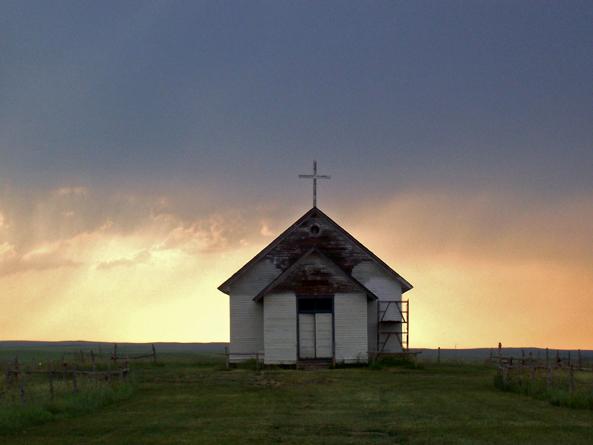 A small rural church building in a prairie or pasture setting.